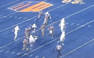 Boise State's running back Jeremy McNichols runs around the Hawaii defense on his way to a 15 yard TD run during the Broncos game vs the Rainbow Warriors at Albertsons Stadium in Boise, Idaho on October 3, 2015.